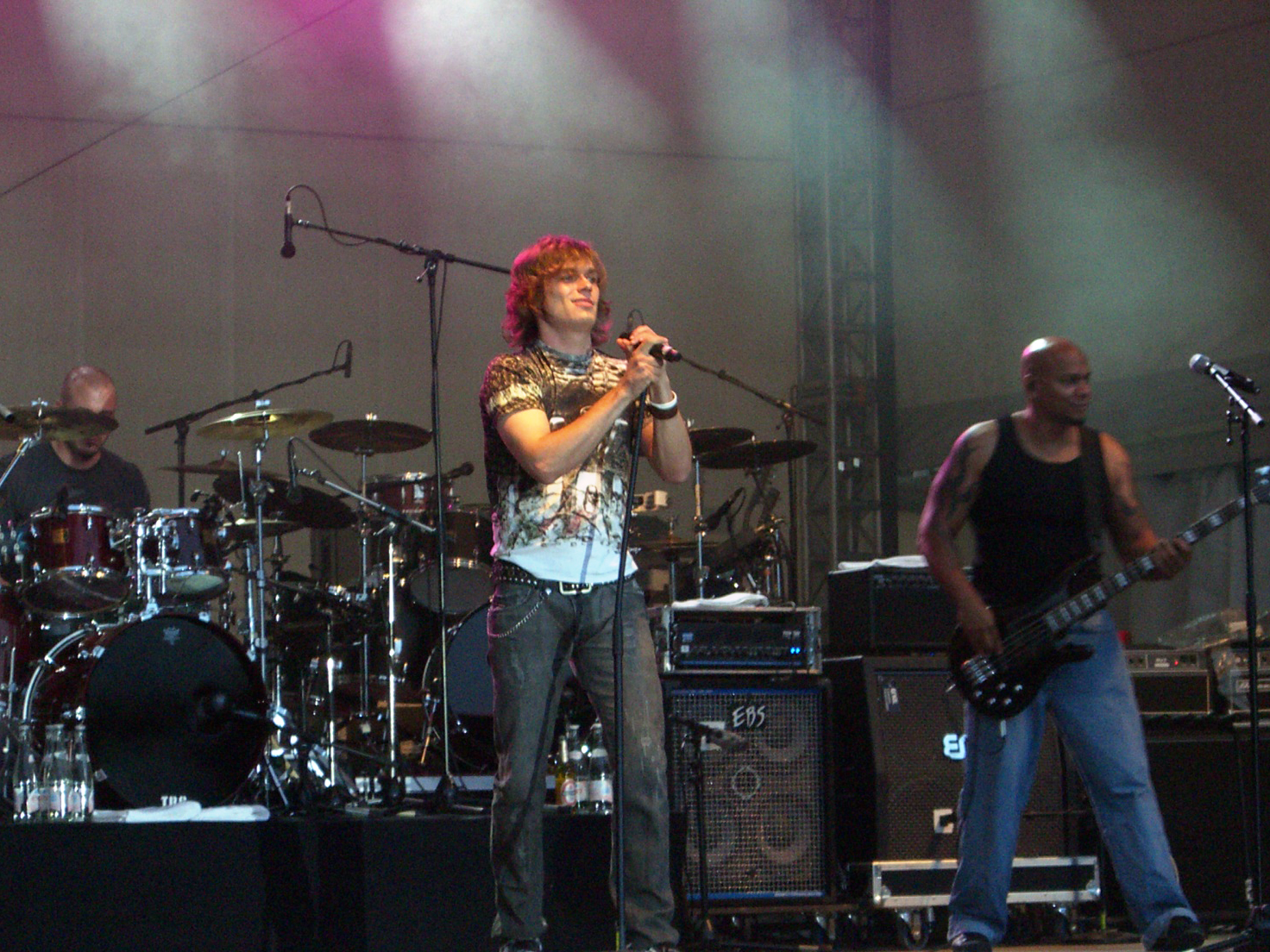 Thomas Godoj and his band in a concert in Ahlbeck/Usedom, Germany, 9th august 2008